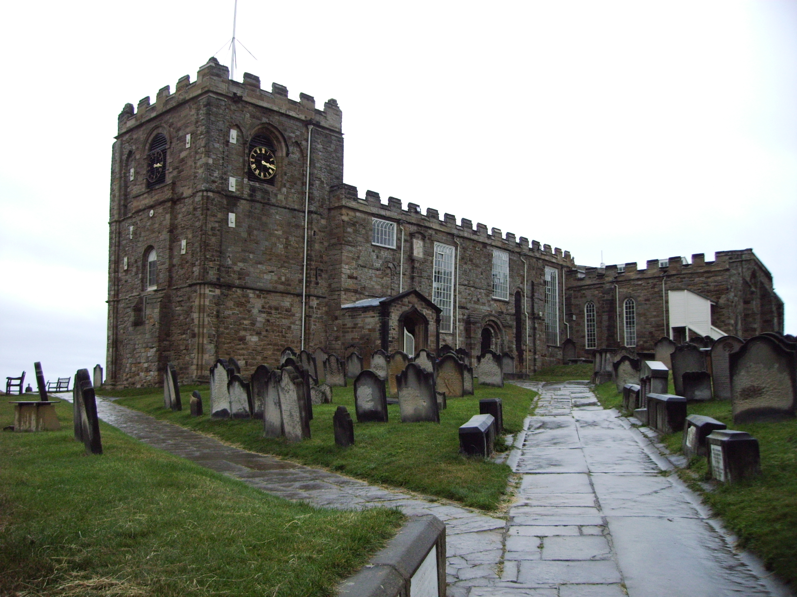 St. Mary's Church of Whitby